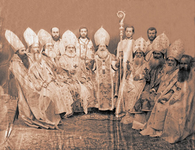 Armenian Apostolic Patriarch and Bishops of Jerusalem. Original description: "A picture taken by a local photographer of the Greek Orthodox Patriarch and Bishops of Jerusalem Circa 1880."